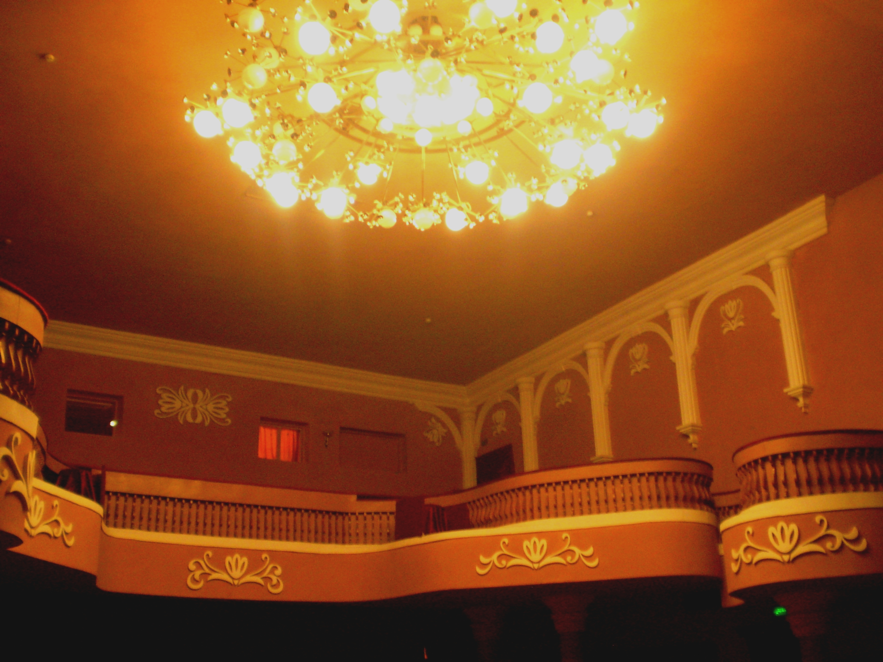 Pavlodar A.P. Chekhov drama theatre. Interior of the auditorium. Balcony